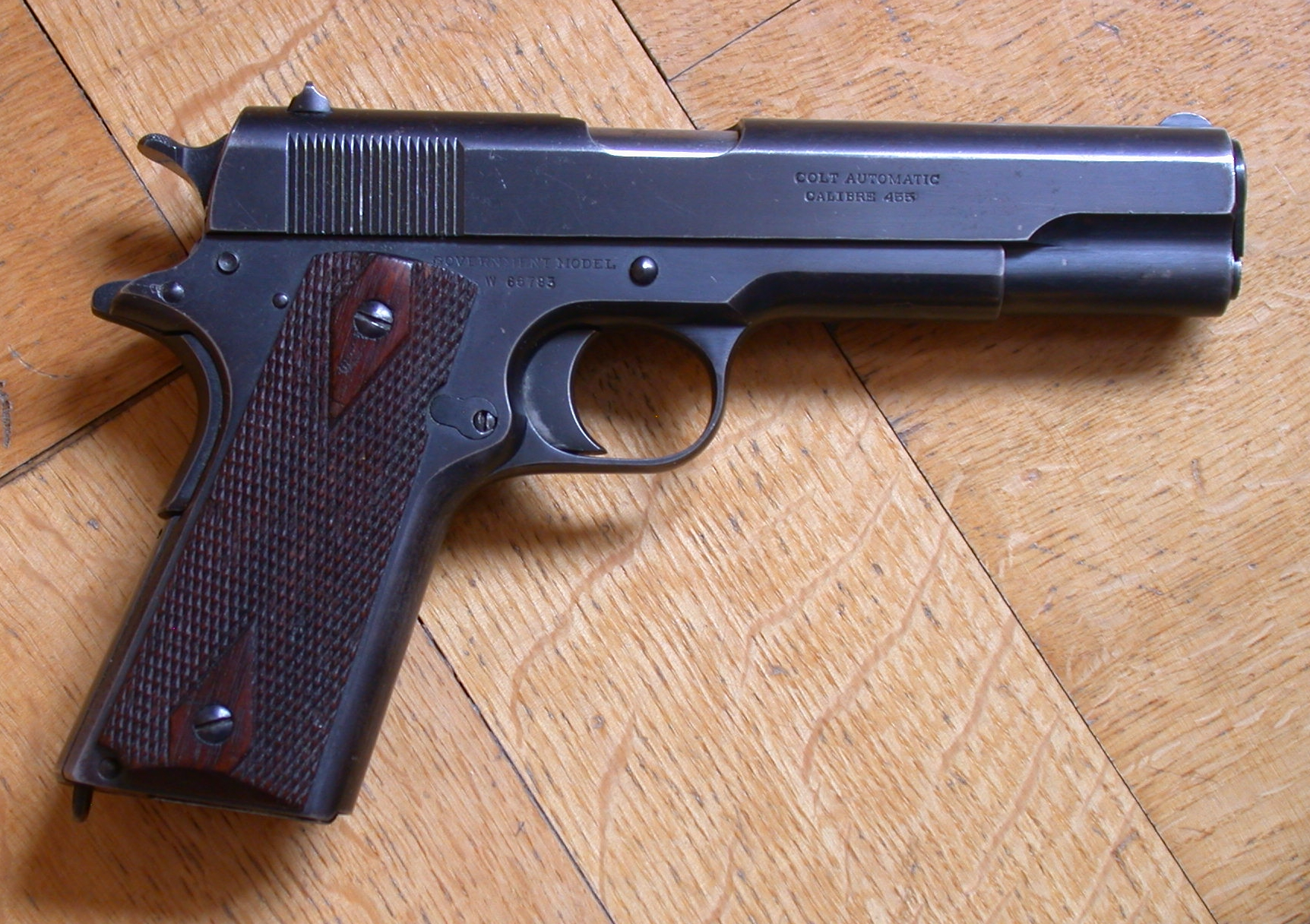 Colt 1911 cal. .455 British Model